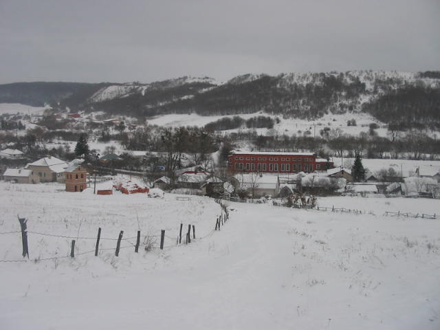 Village Lopushnya, Rohatyn district, Ivano-Frankivsk region, western Ukraine.